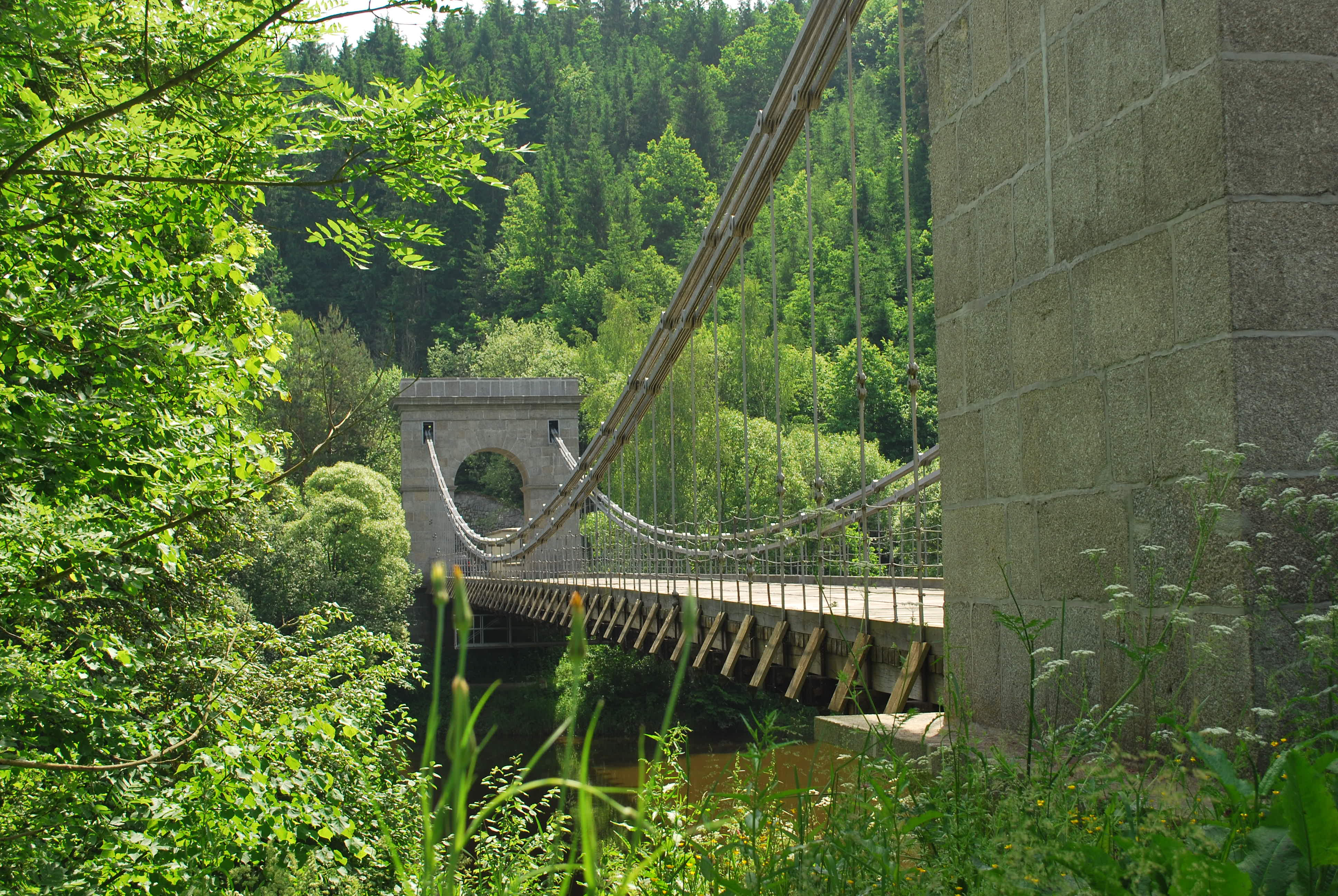 Stádlec, bridge